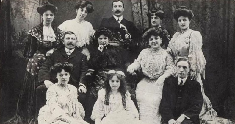 A post card photo of the music hall singer Marie Lloyd pictured with her family c. 1900. From left to right: Top row: Daisy, Rosie, John, Grace, Alice. Middle: John Wood (father), Matilda (mother), Marie. Bottom: Annie, Maud, Sydney.